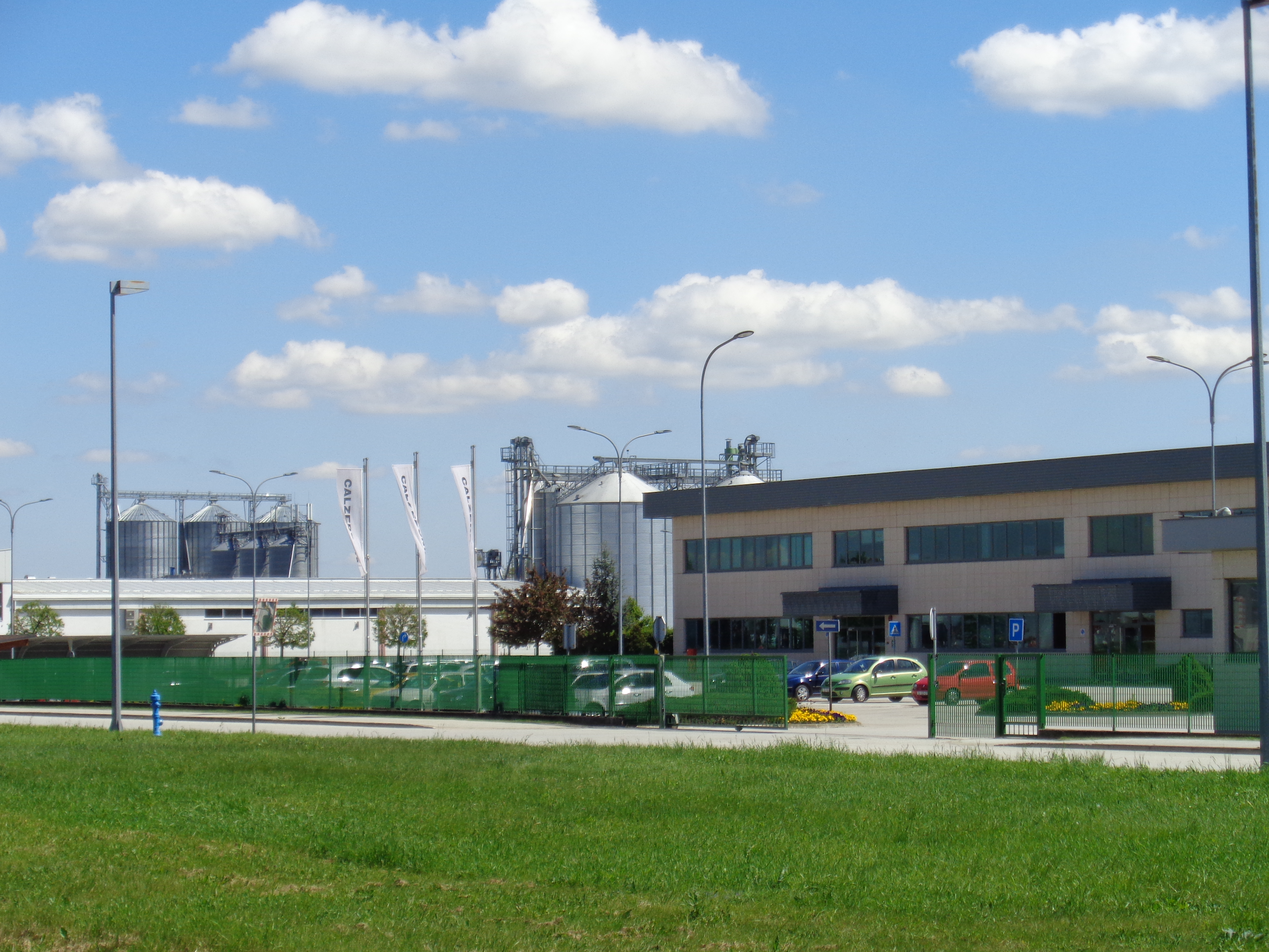 Čakovec-East Industrial Zone, Čakovec, Medjimurie County, northern Croatia